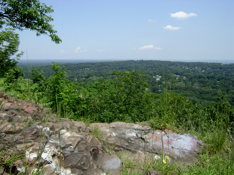 View from a ledge near the summit of High Mountain in the Preakness Range of the Watchung Mountains. Goffle Hill can be seen across the valley separating the mountains.